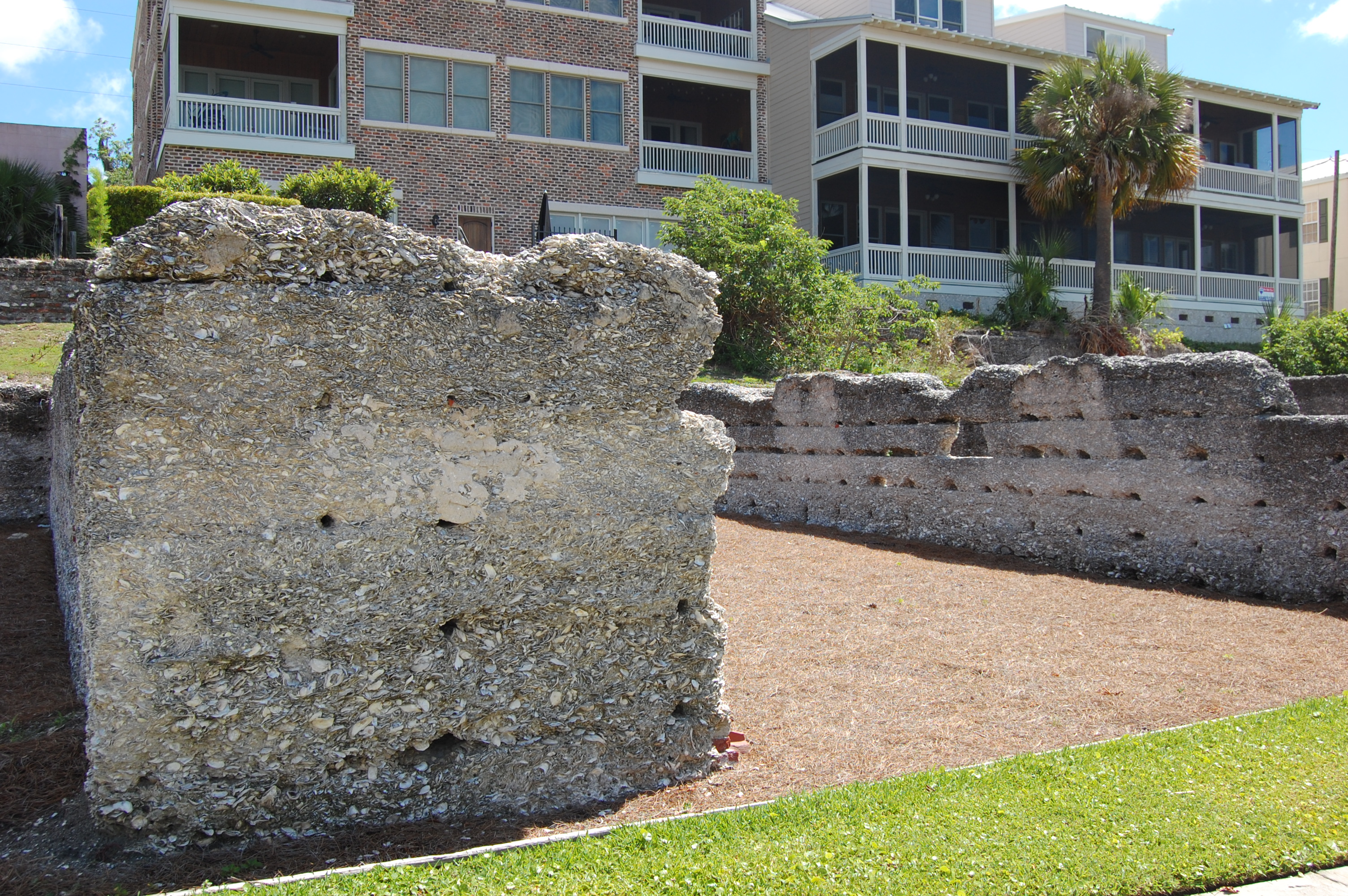 Ruins from 1863 desctuction of Darien, GA